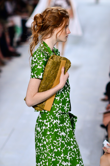 A model walks the runway at the Michael Kors Spring/Summer 2014 show at New York Fashion Week, September 2013.